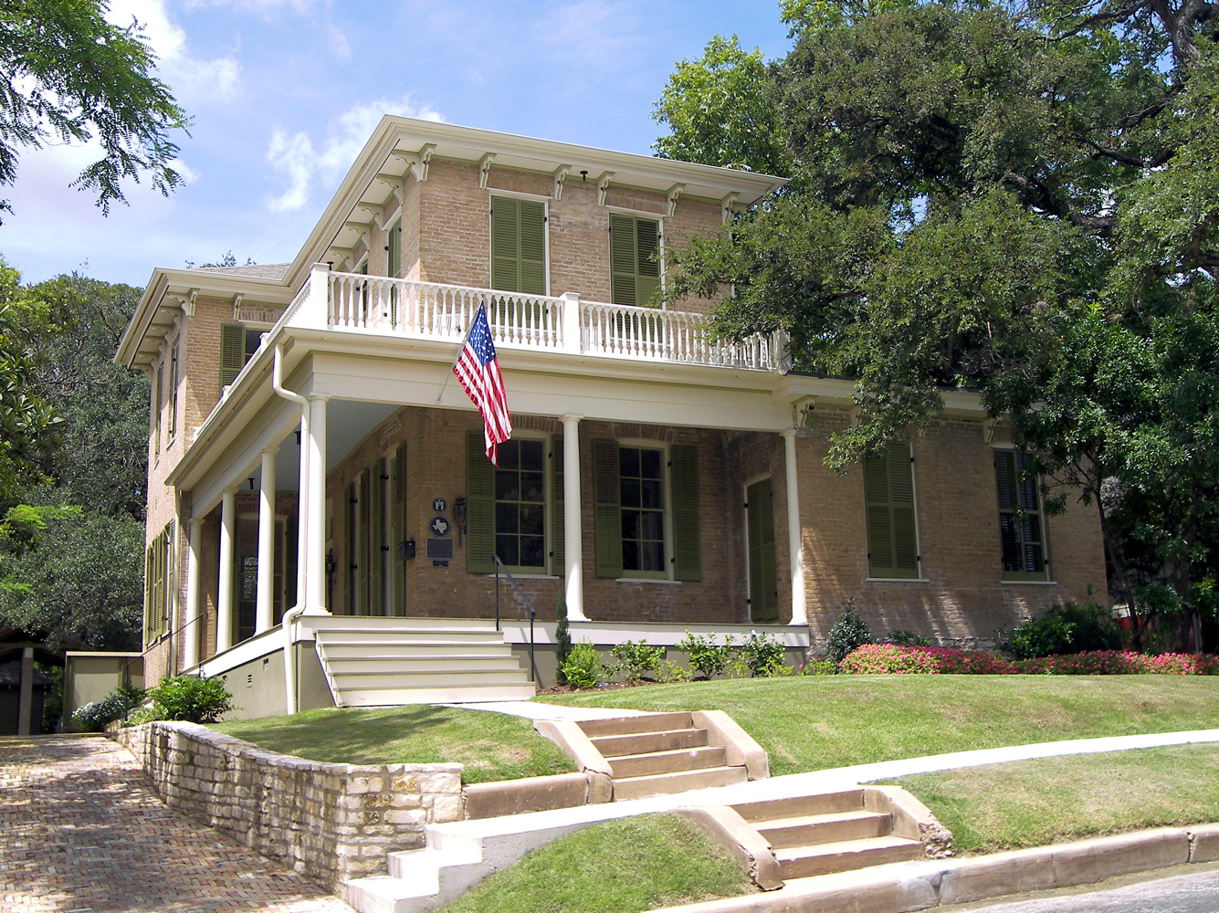 The A. J. Jernigan House, also known as Las Ventanas, is located in Austin, Texas, United States. The house was designated a Recorded Texas Historic Landmark in 1967 and listed on the National Register of Historic Places in 1983.